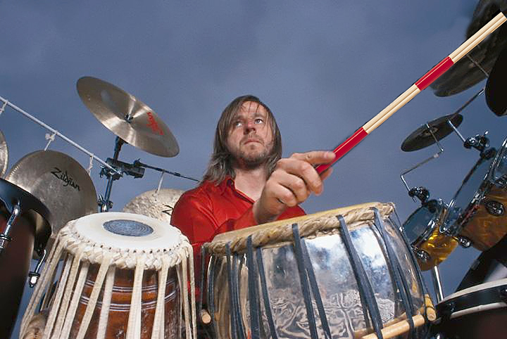 Photograph of Pete Lockett, courtesy of Pete Lockett himself.